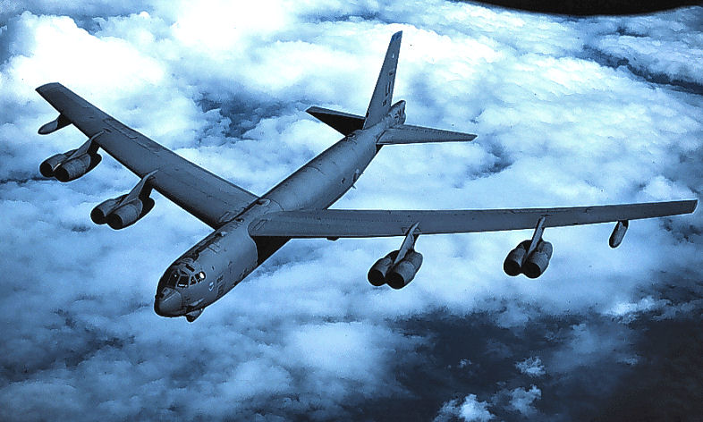 B-52H Stratofortess of the 2d Operations Group